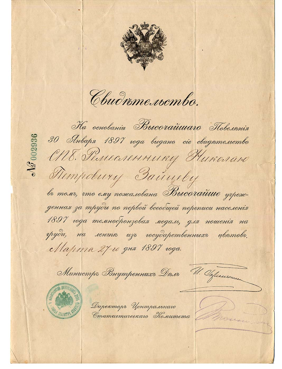 Certificate of medal "For works on the first general census"